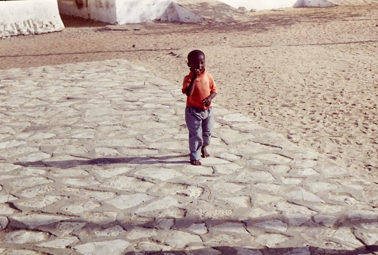 Senegalese boy in Gore Island